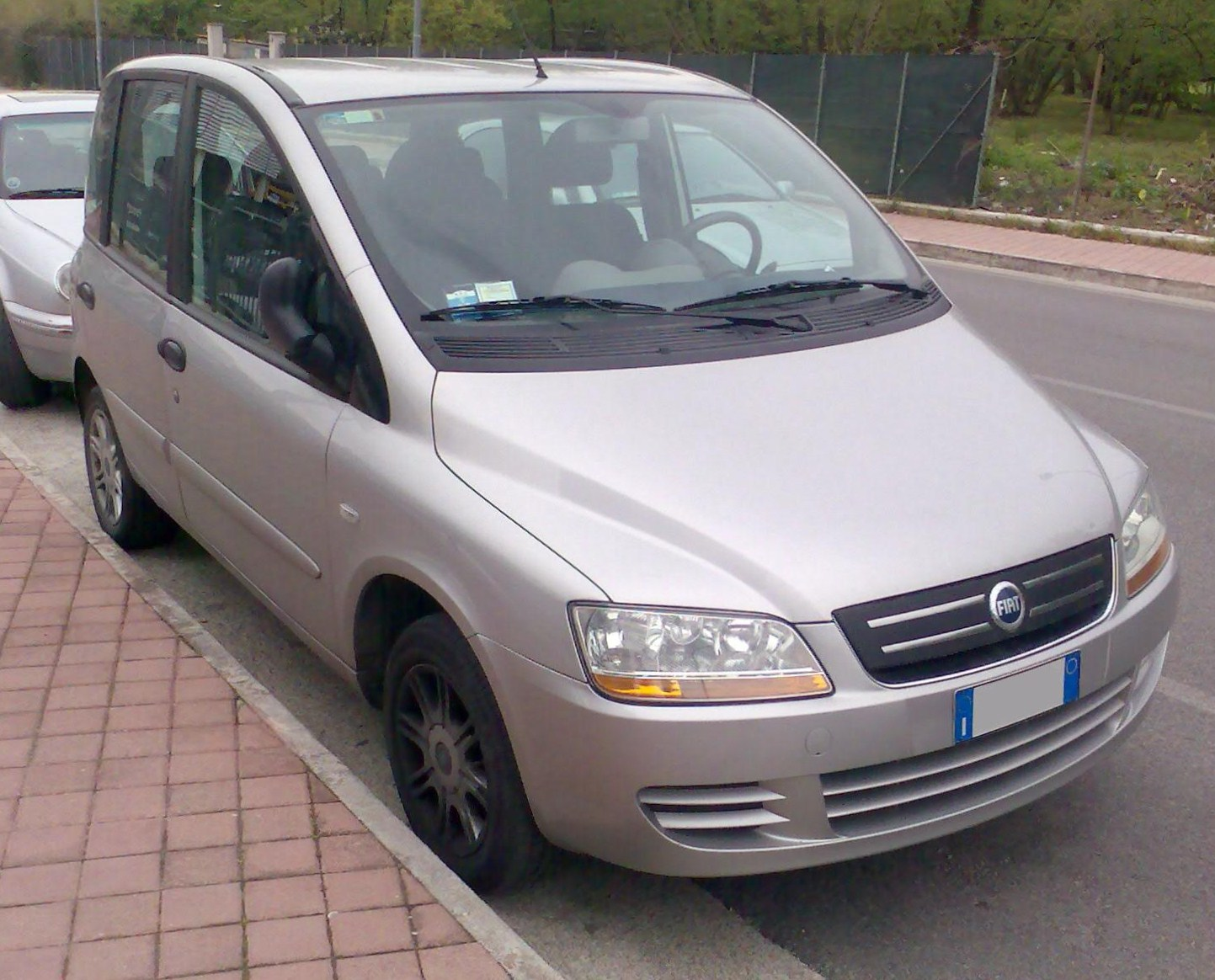 Fiat Multipla